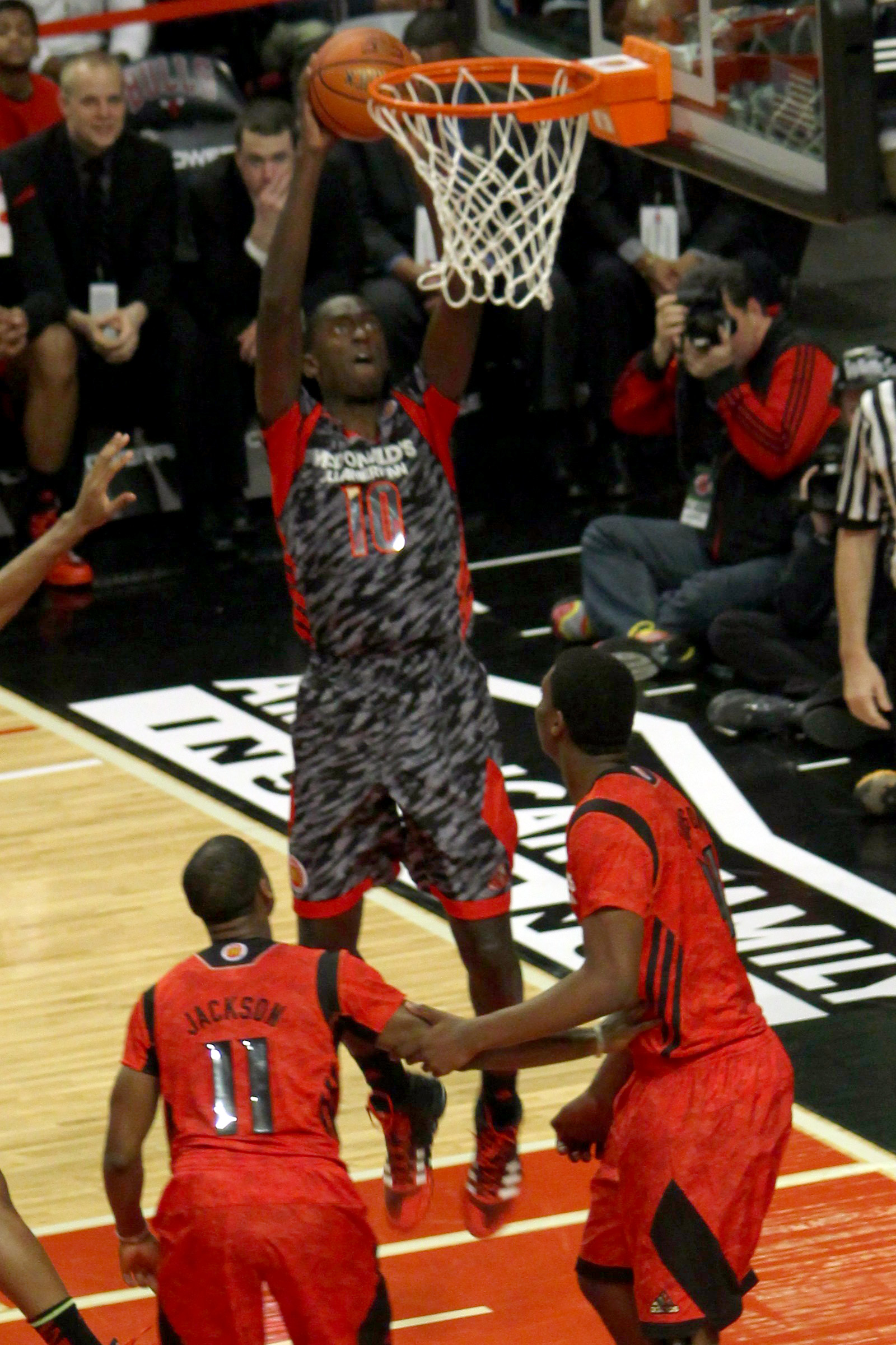 Bobby Portis, Jr. dunking during the w:2013 McDonald's All-American Boys Game